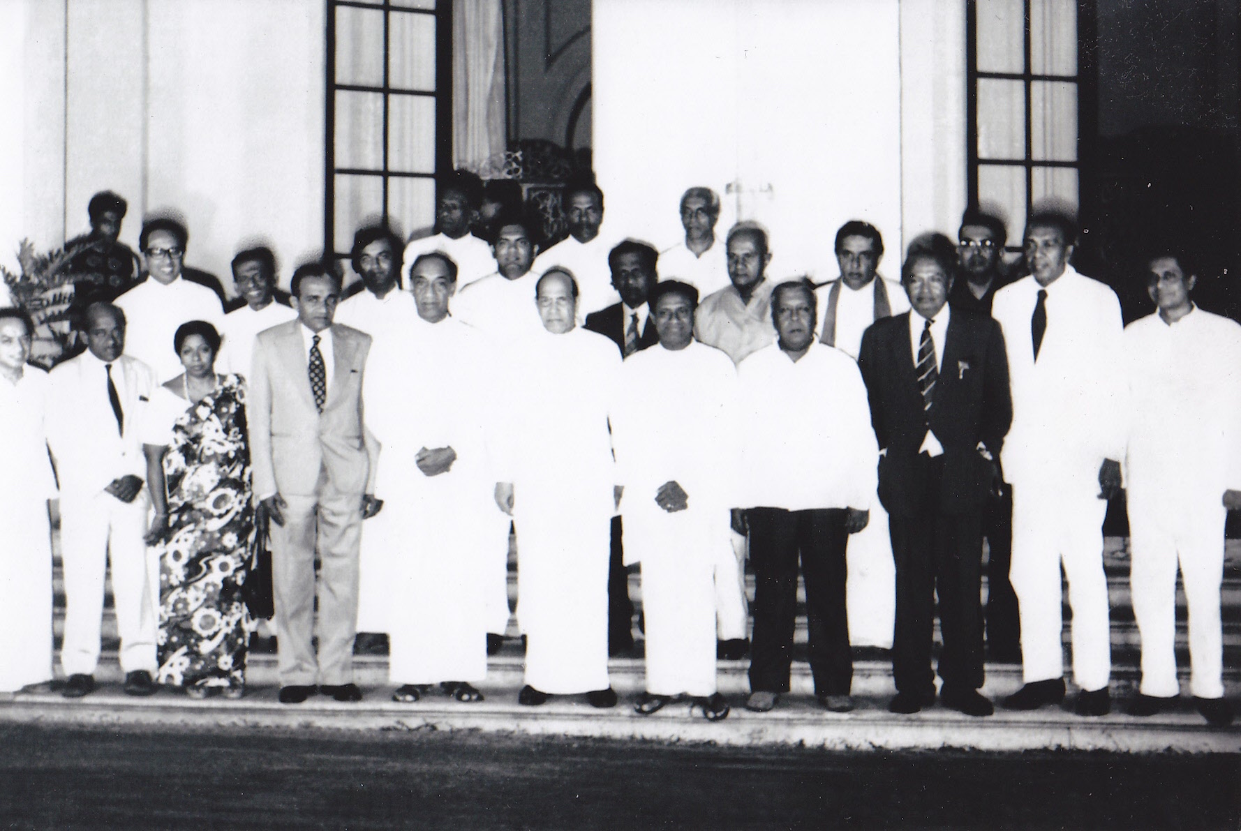 Photograph of Sri Lanka Cabinet Ministers of 23 July 1977 Front row, left to right A.C.S Hameed (Minister of Foreign Affairs), Shelton Jayasinghe (Minister Posts and Telecommunications), Mrs. Wimala Kannangara - (Minister of Shipping, Aviation and Tourism), E. L. B. Hurulle (Minister of Cultural Affairs), J. R. Jayewardene (Prime Minister of Sri Lanka, Minister of Defence, Planning and Economic Affairs), William Gopallawa (President of Sri Lanka), Ranasinghe Premadasa (Minister of Local Government, Housing and Construction), E.L Senanayake (Minister of Agriculture and Lands), Montague Jayawickrama (Minister of Public Administration and Home Affairs), M. D. H. Jayawardena (Minister of Plantation Industries), Gamini Jayasuriya (Minister of Health) Second row, left to right Ronnie de Mel (Minister of Finance), S.de S. Jayasinghe (Minister of Fisheries), Gamini Dissanayake (Minister of Irrigation, Power and Highways), Lalith Athulathmudali (Minister of Trade), Vincent Perera (Minister of Parliamentary Affairs and Sports), Cyril Mathew (Minister of Industries and Scientific Affairs), Nissanka Wijeyeratne (Minister of Education), M. H. Mohamed (Minister of Transport), Third row, left to right C. P. J. Seneviratne (Minister of Labour), Wijayapala Mendis (Minister of Textile Industry), D. B. Wijetunga (Minister of Information and Broadcasting)